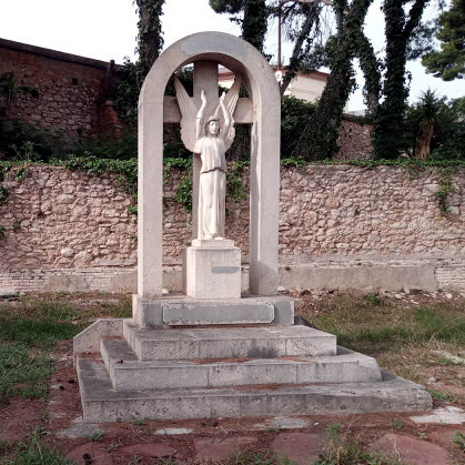 Picadero de Paterna (Valencia)